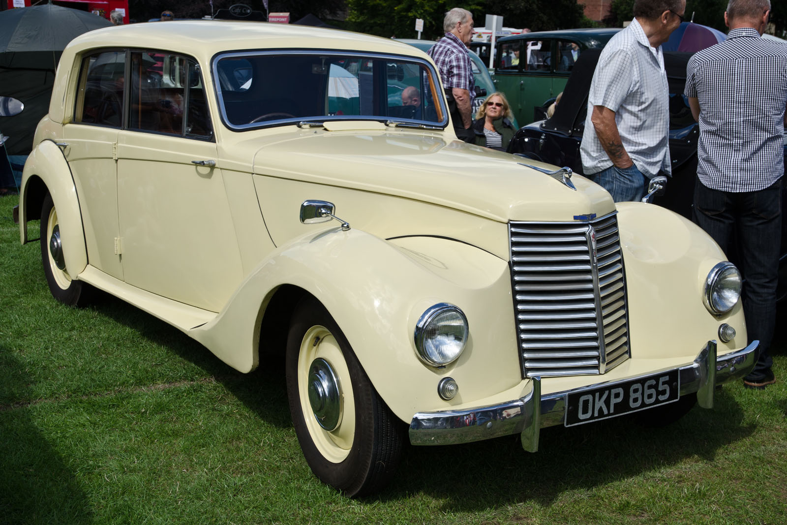 Hebden Bridge Vintage Weekend 04/08/2013